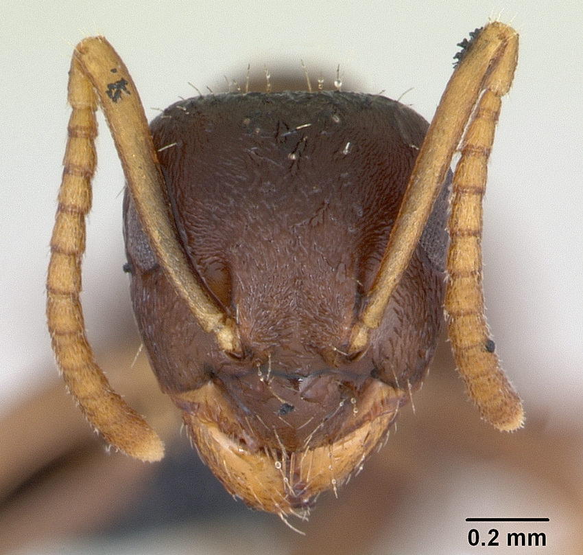 Head view of ant Lasius neglectus specimen casent0173143.